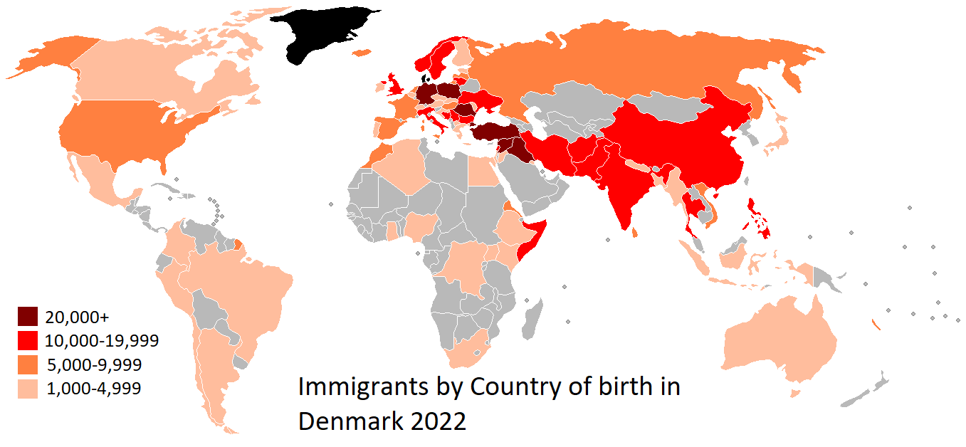 Foreign population of Denmark by country of origin (2003)